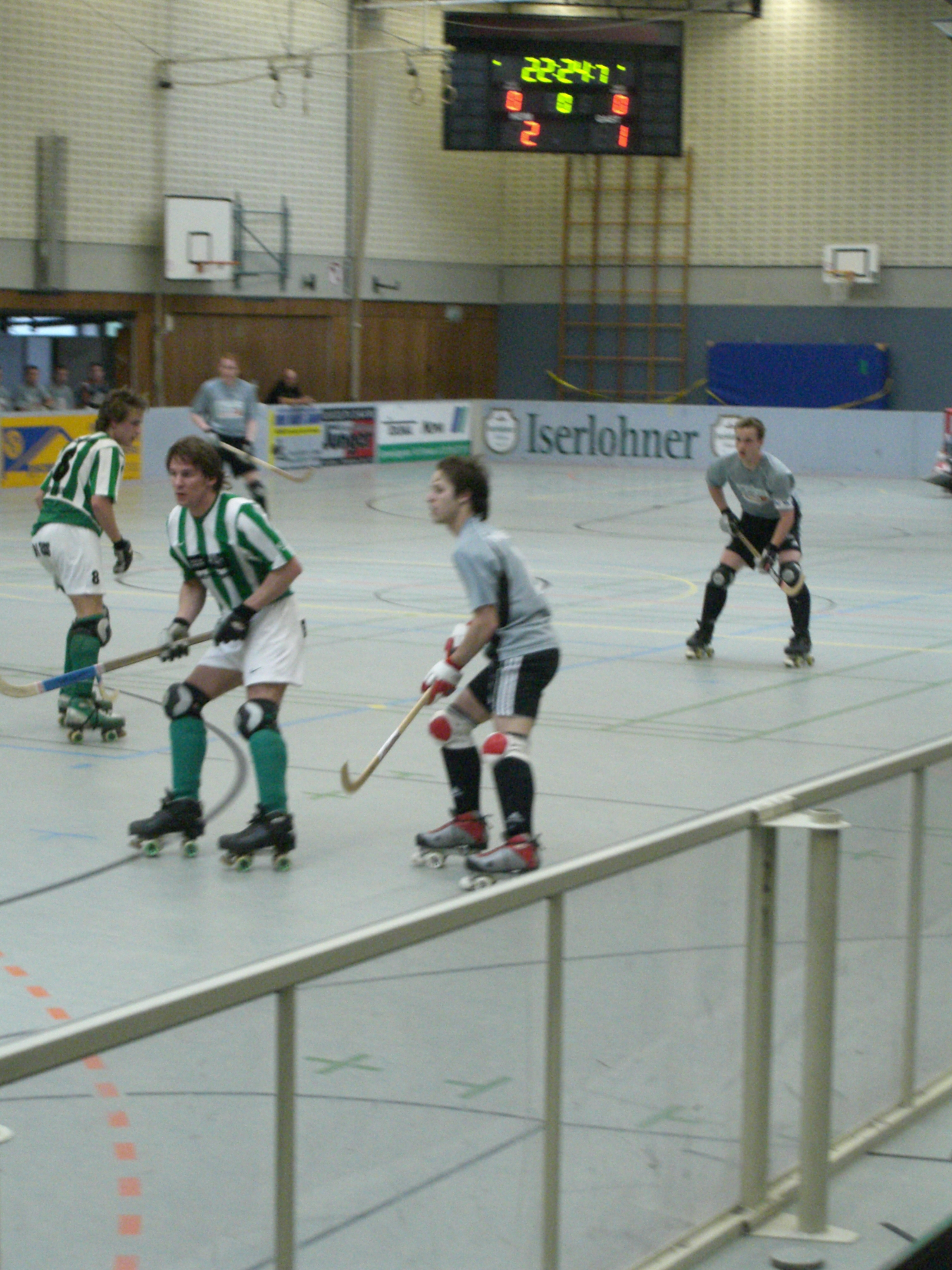 a roller-hockey game in Iserlohn, Germany (play-off final 2006) own photo 13. Mai 2006, May 13th 2006